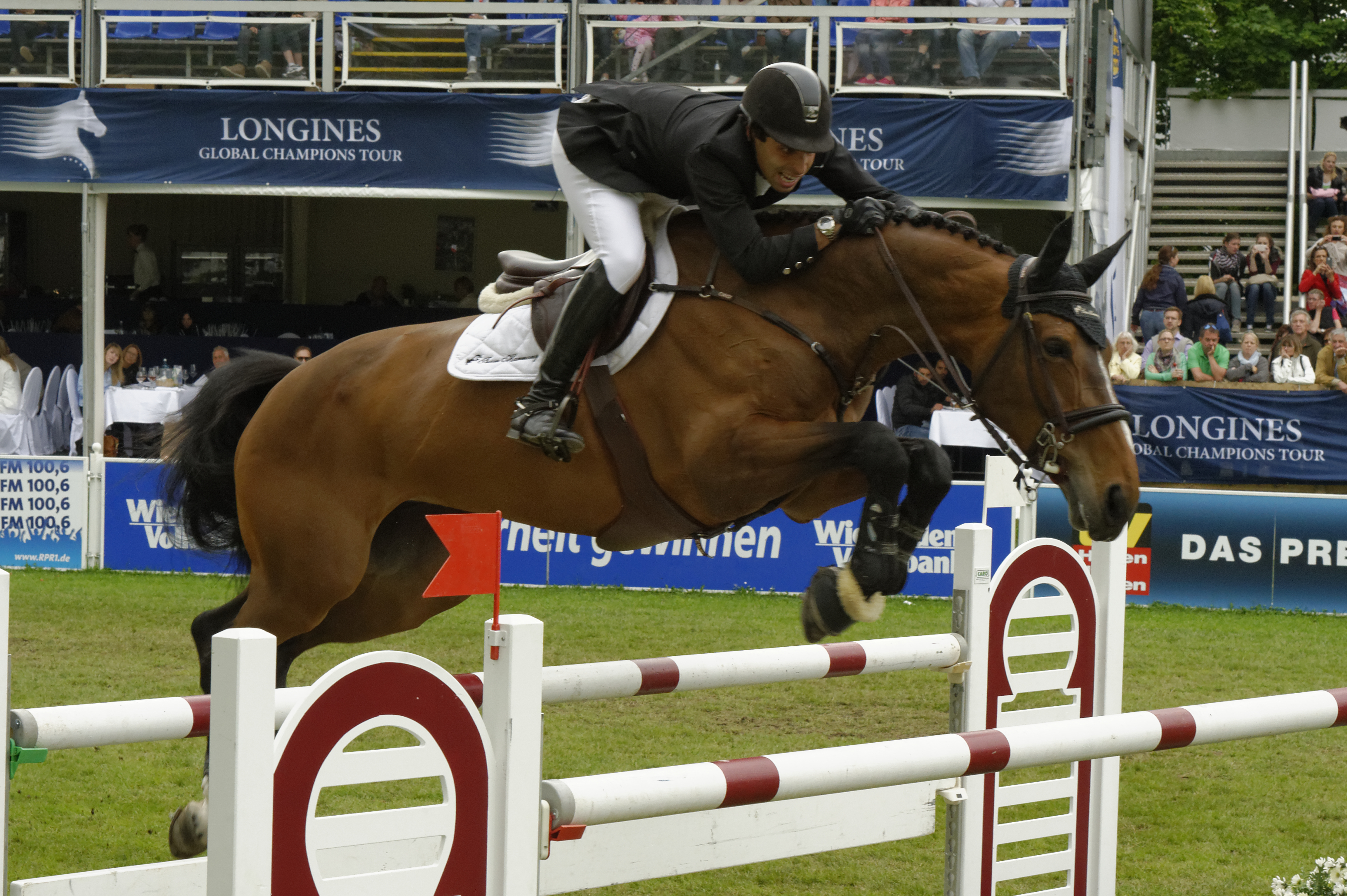 Internationales Pfingstturnier Wiesbaden 2013 The making of this document was supported by the Community-Budget of Wikimedia Germany.